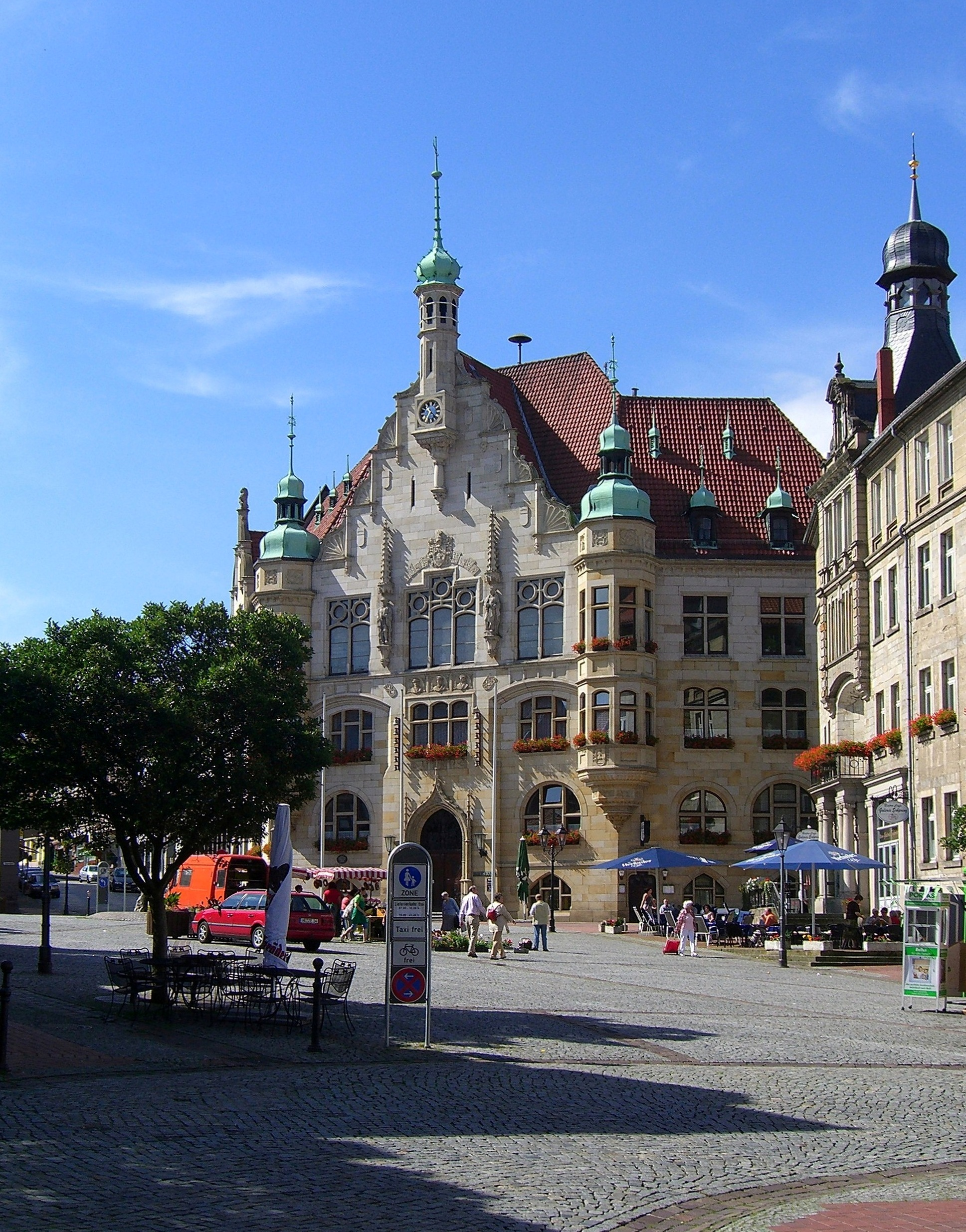 market place and city hall in Helmstedt